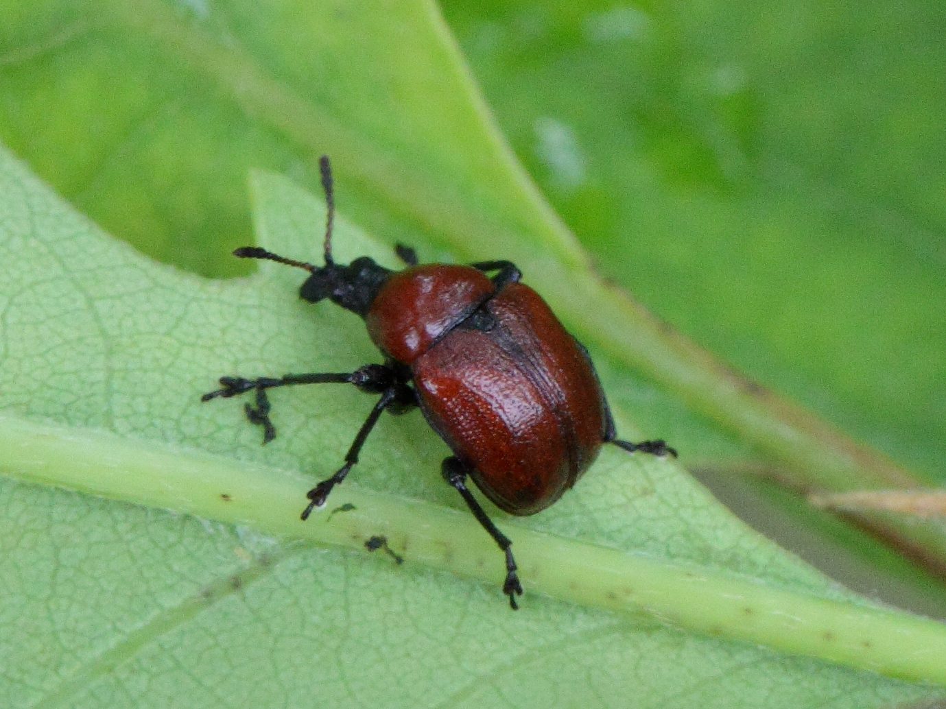 Attelabus nitens on Quercus in Germany, S-Brandenburg, Krausnicker hills/Spreewald: vic. Wehlaberg (old pine forest with some oak trees), ca. 80m asl.